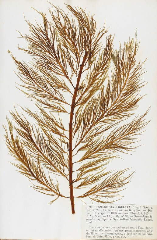 « Desmarestia ligulata » = Desmarestia ligulata